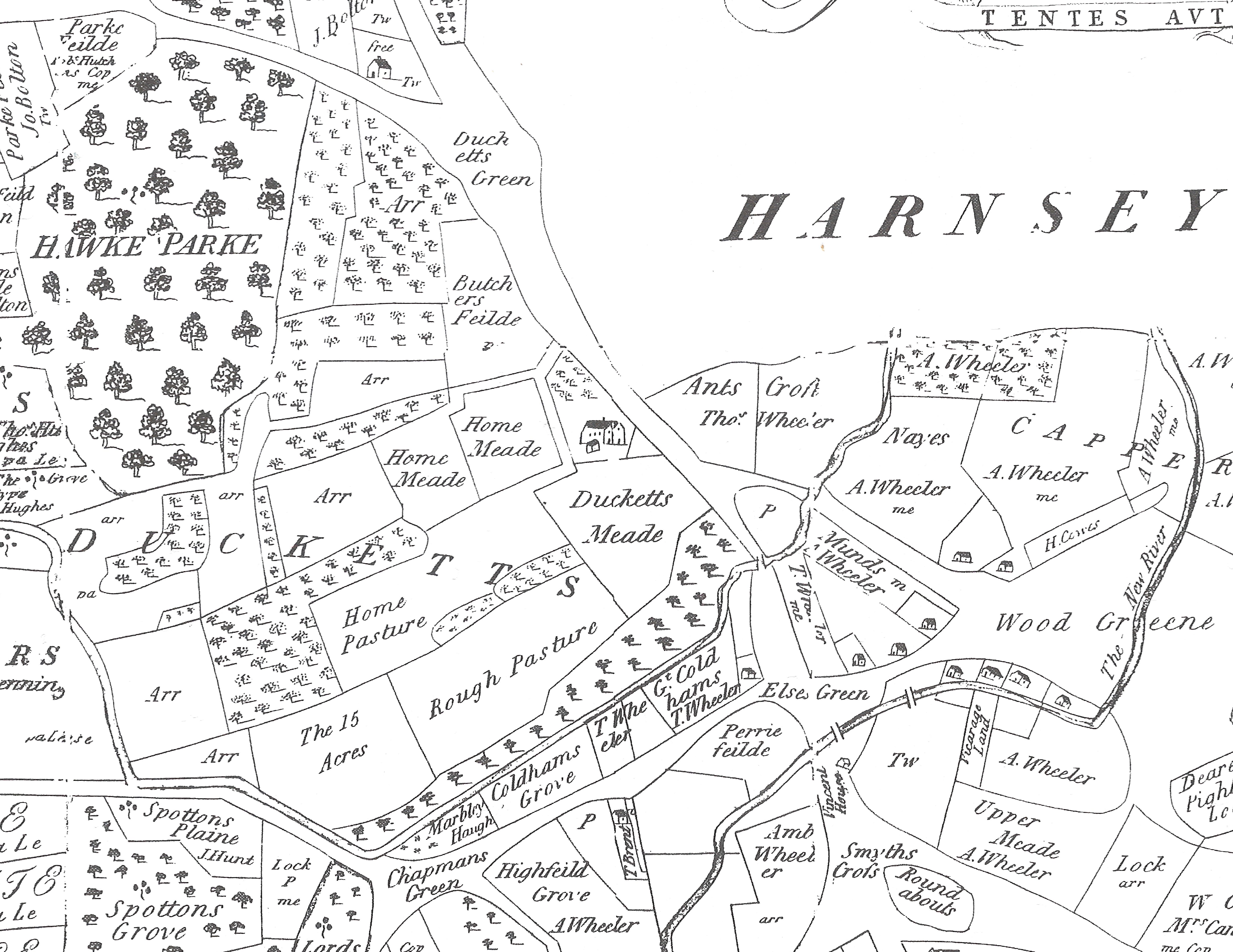 Noel Park and Wood Green: detail of the 1619 map of the Parish of Tottenham, Middlesex (now in the London Borough of Haringey). As with most English maps of the period, south is shown at the top.